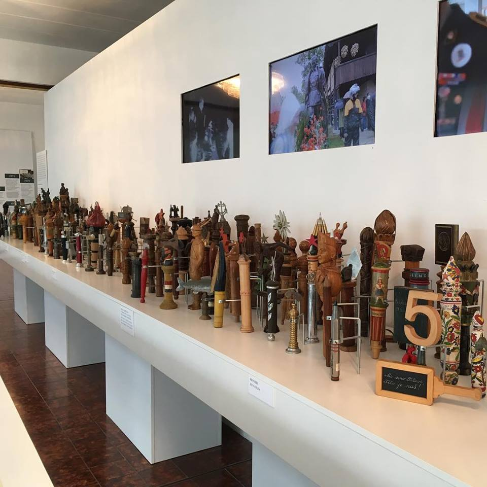 Stips that Josip Broz Tito received from all sides of the former Yugoslavia are kept in the Museum of Yugoslav History in Belgrade